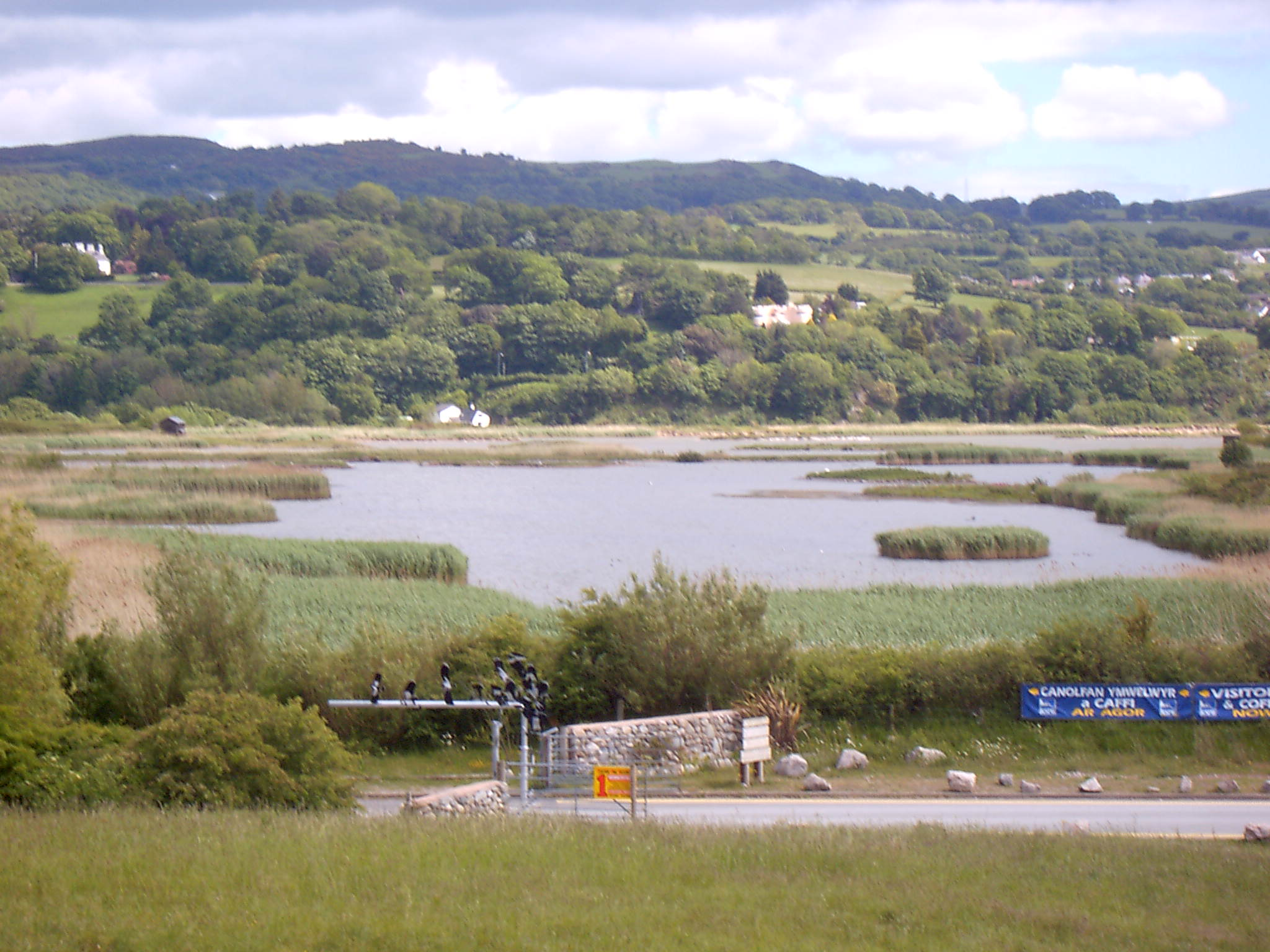 View of Conwy RSPB reserve in Llandudno Junction, Conwy County Borough, Wales.